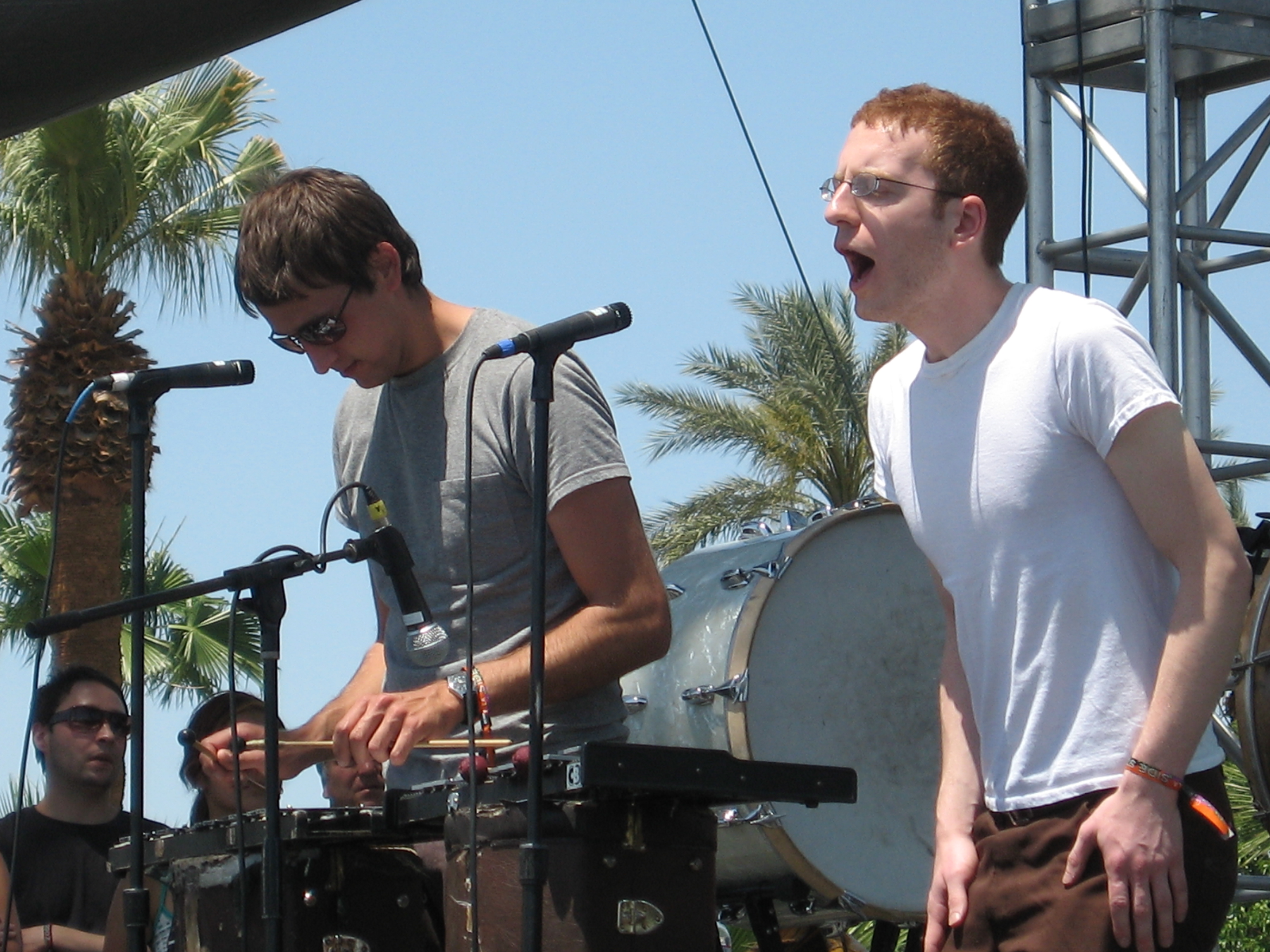 Anathallo at Coachella Valley Music and Arts Festival, 2007. The three days festival happens at Indio, CA, some 23 miles from Palm Springs International Airport.